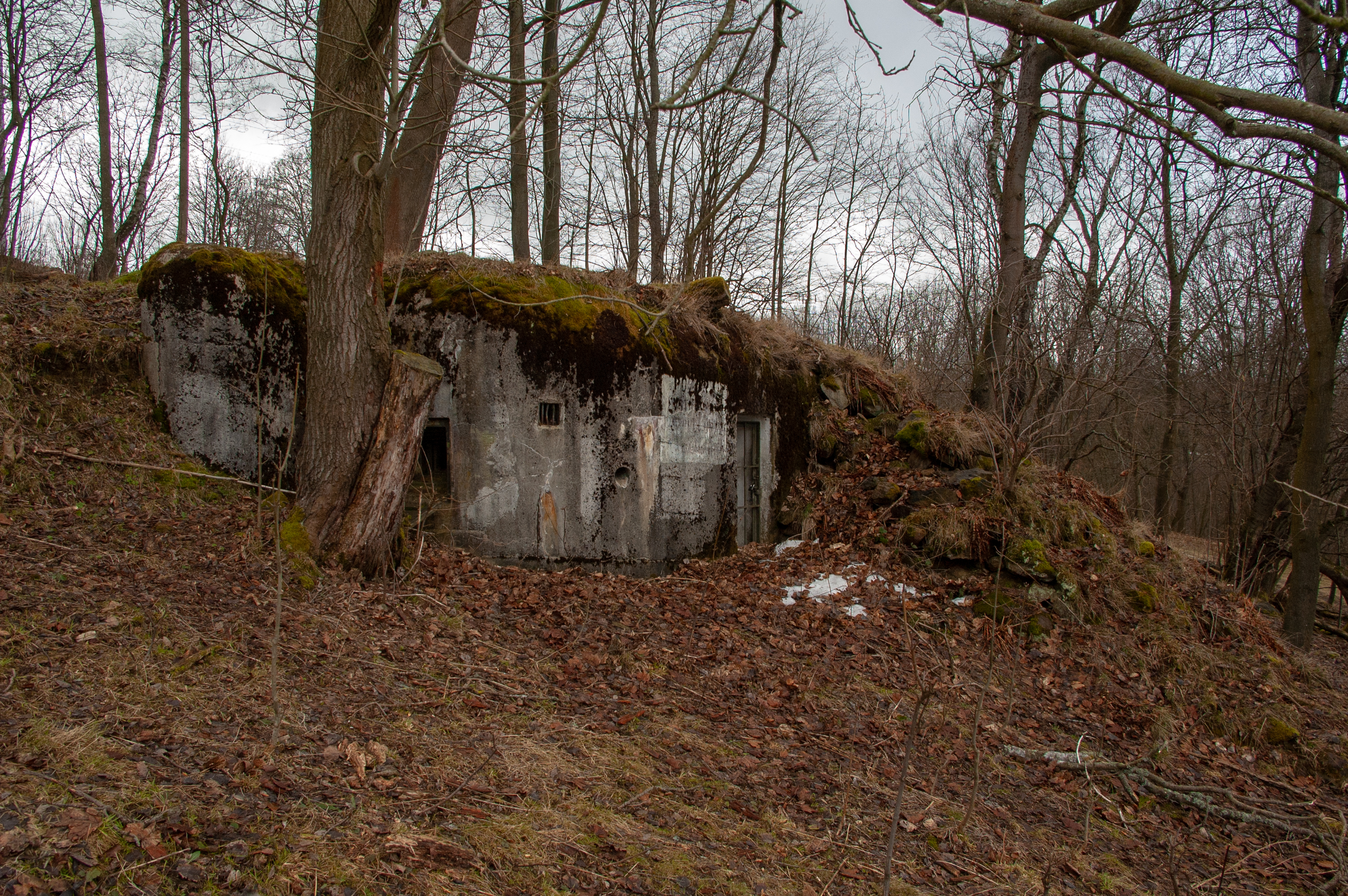 This image was created as a part of Editaton Prachatice (Czech).